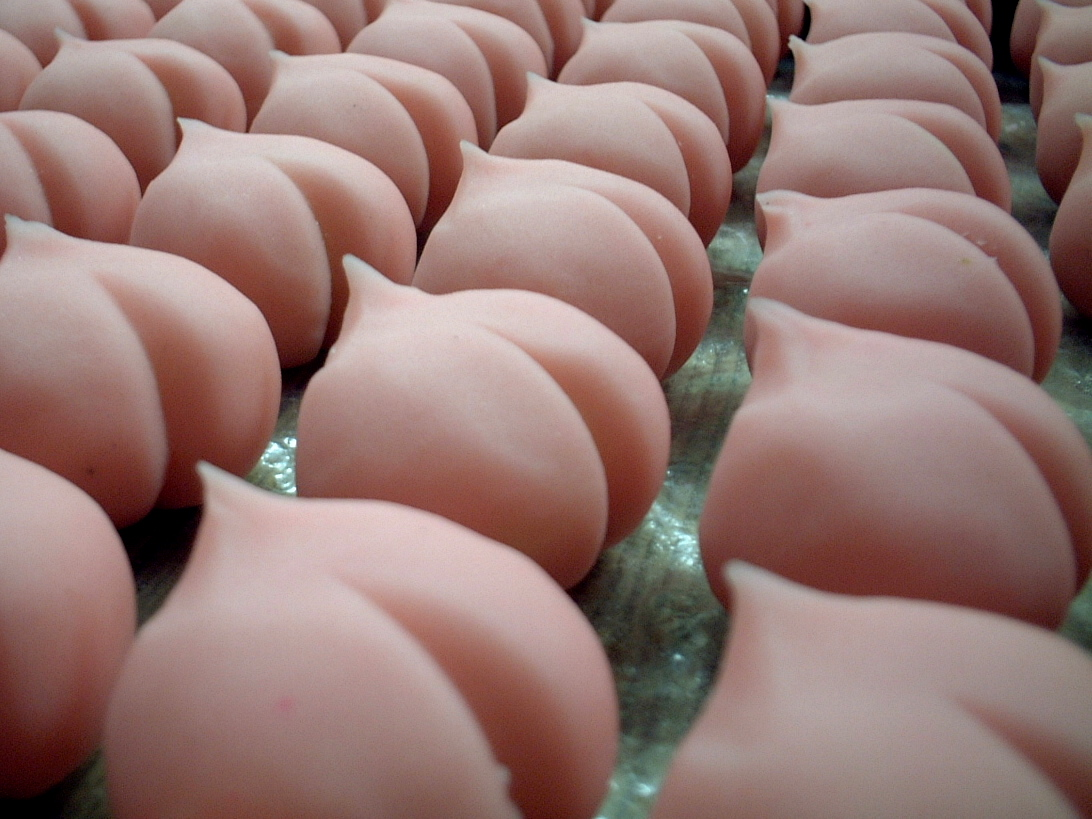 This is Japanese traditional sweets named Seioubo. It models it on the peach. The name of Seioubo is quoted from the legend of China. By the way... Which are your hips? )